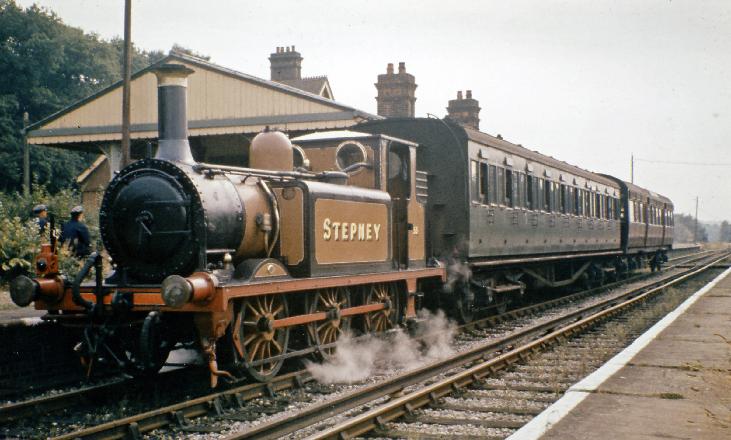 Bluebell Railway train at Horsted Keynes in 1964. View southward, towards Sheffield Park: ex-LB&SC East Grinstead - Lewes line, restored by Bluebell Railway Preservation Society in 1960 - see TQ4023 : Bluebell Railway train at Sheffield Park in 1961. Ex-LB&SC A1X 0-6-0T No. 55 'Stepney' with two vintage coaches [what are they?] heads the train from Sheffield Park in 1964